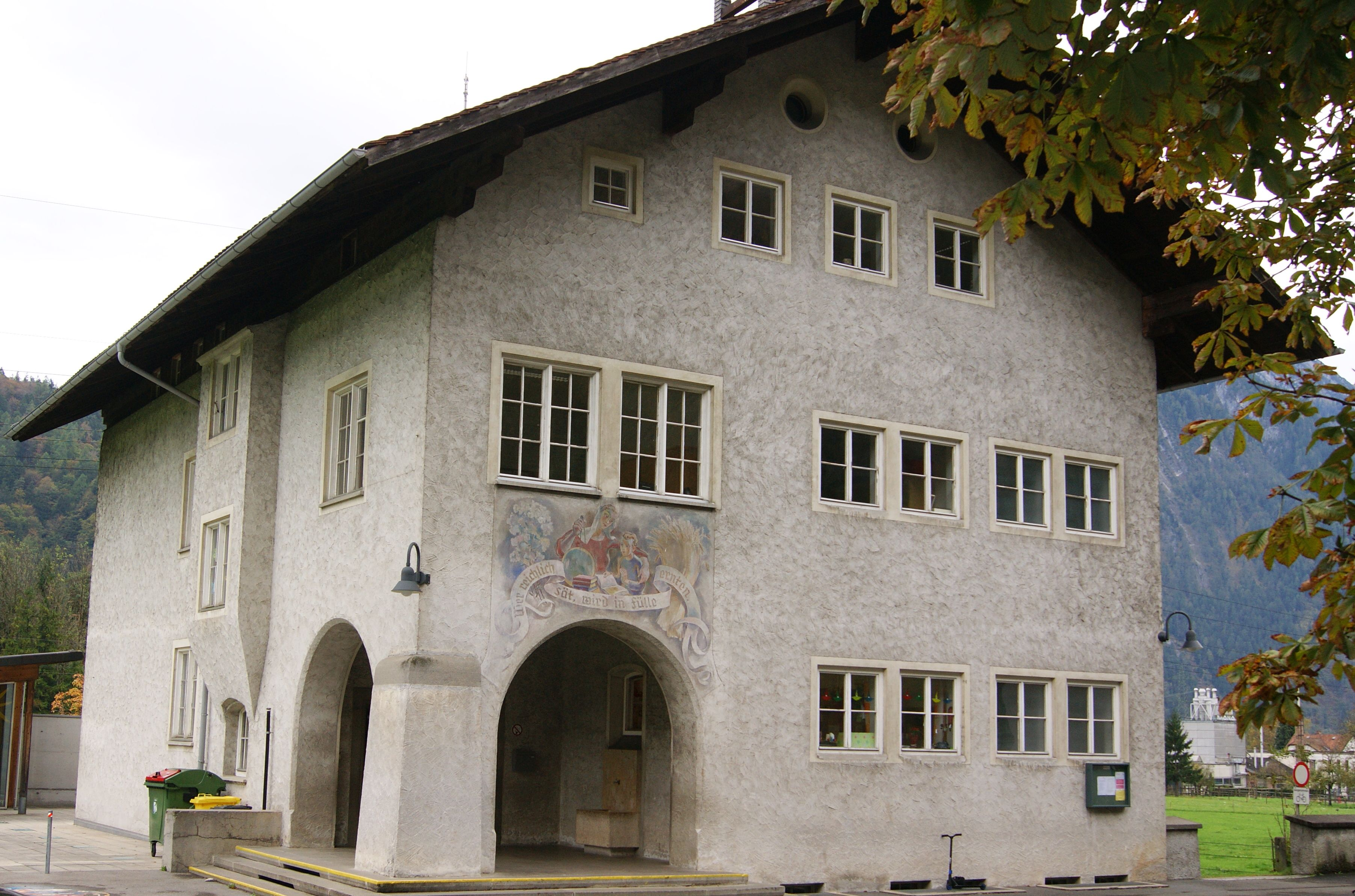 Elementary school Oberbings no.: 16 near the parish church. The fresco above the entrance made by Hubert Fritz.